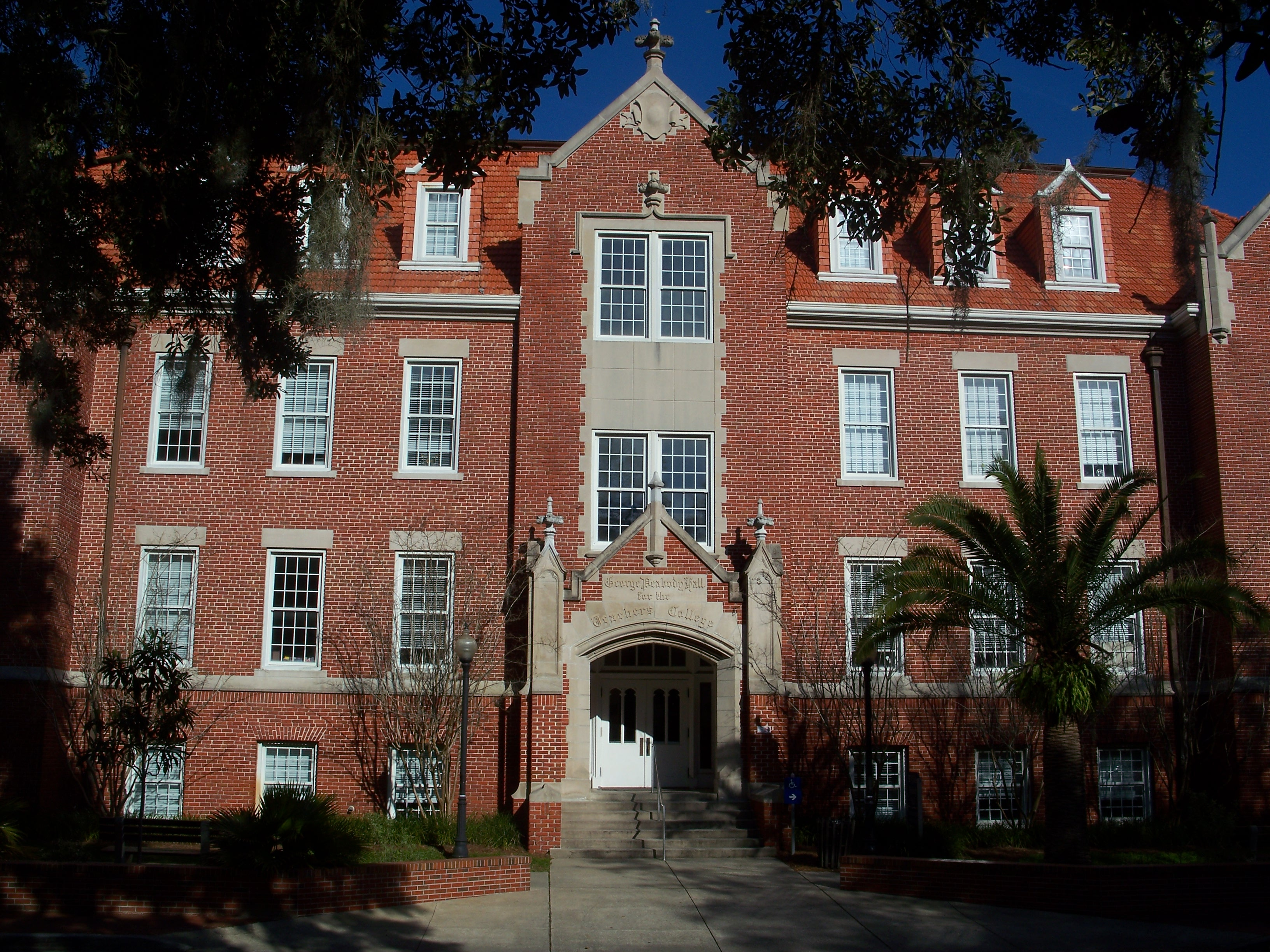 Peabody Hall, part of the University of Florida Campus Historic District